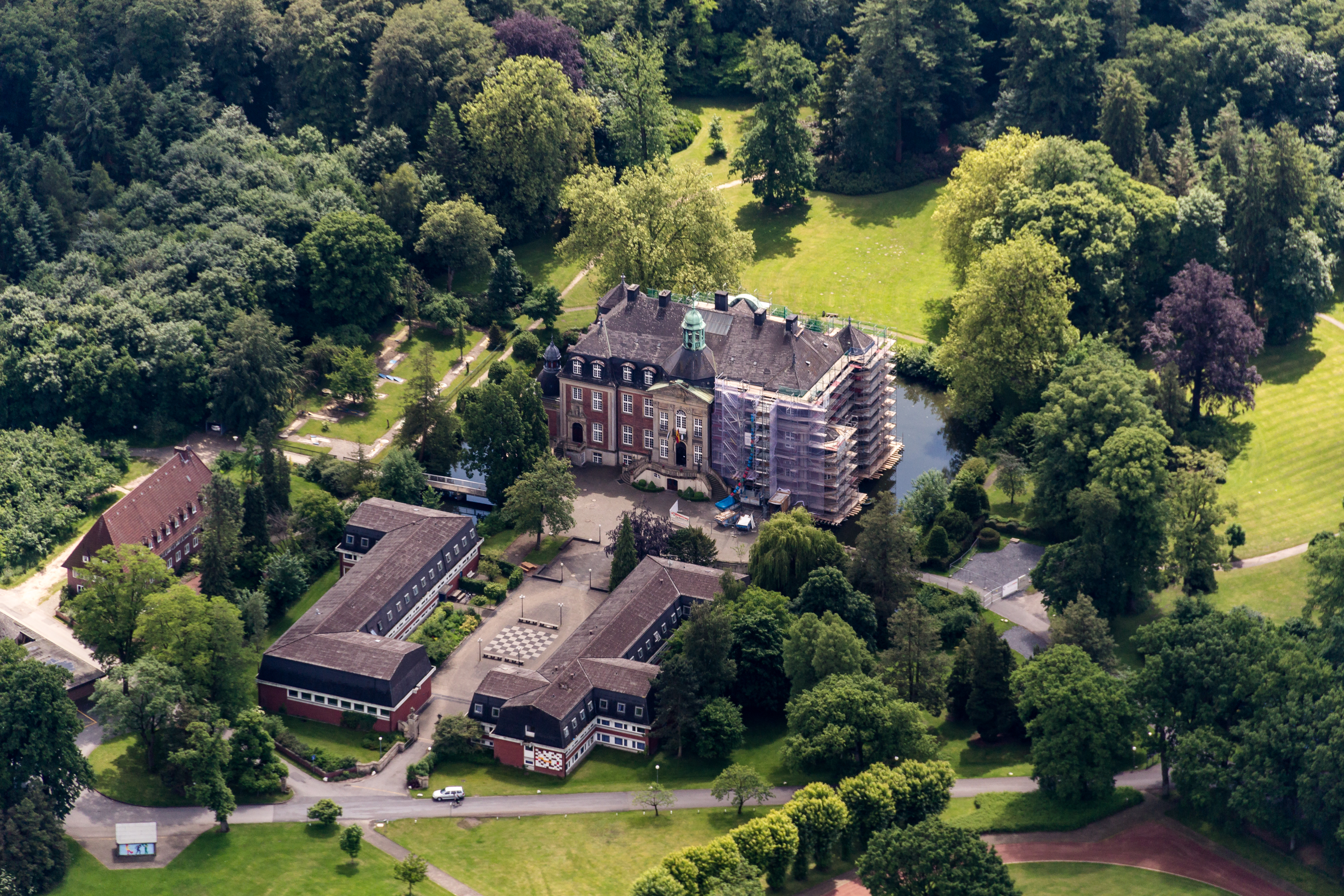 Loburg Castle, Ostbevern, North Rhine-Westphalia, Germany This image shows a heritage building in Germany, located in the North Rhine-Westphalian city Ostbevern (no. 60).